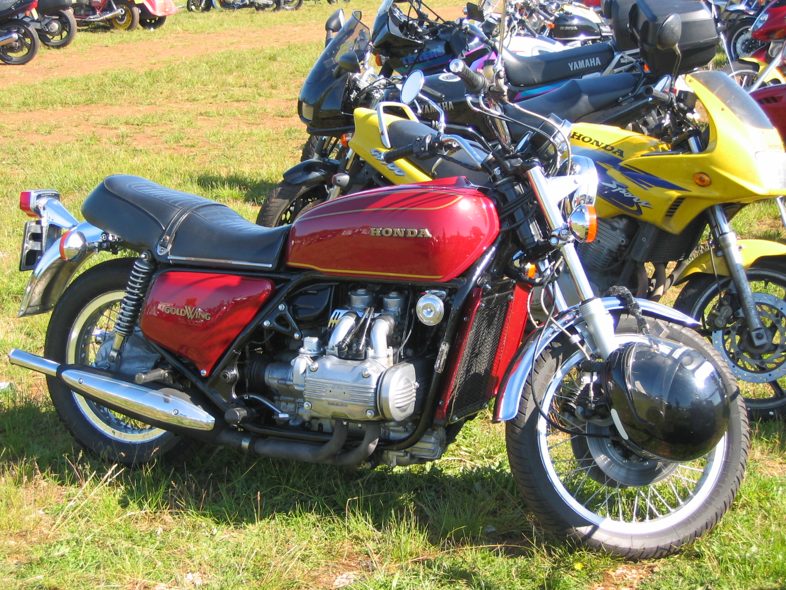 Honda 1000 GL, the first Gold Wing (1975) Picture : Gérard Delafond